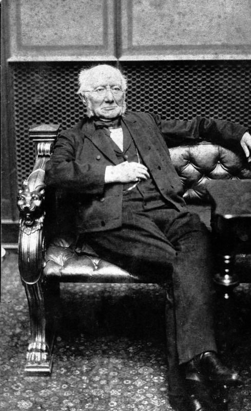 Title: Ludwig Windthorst Extra information: Ludwig Windthorst, auf Ledersofa sitzend [aus Nachlaß Spahn] People in the image: Windthorst, Ludwig Dr.: Justizminister des Königreichs Hannover, Reichstagsabgeordneter (MdR), Rechtsberater und Bevollmächtigter König Georgs V., Deutschland (GND 118633678) Factual corrections and alternative descriptions are encouraged separately from the original description. Additionally errors can be reported at this page to inform the Bundesarchiv. Original historic description: Ludwig Wind(t)horst